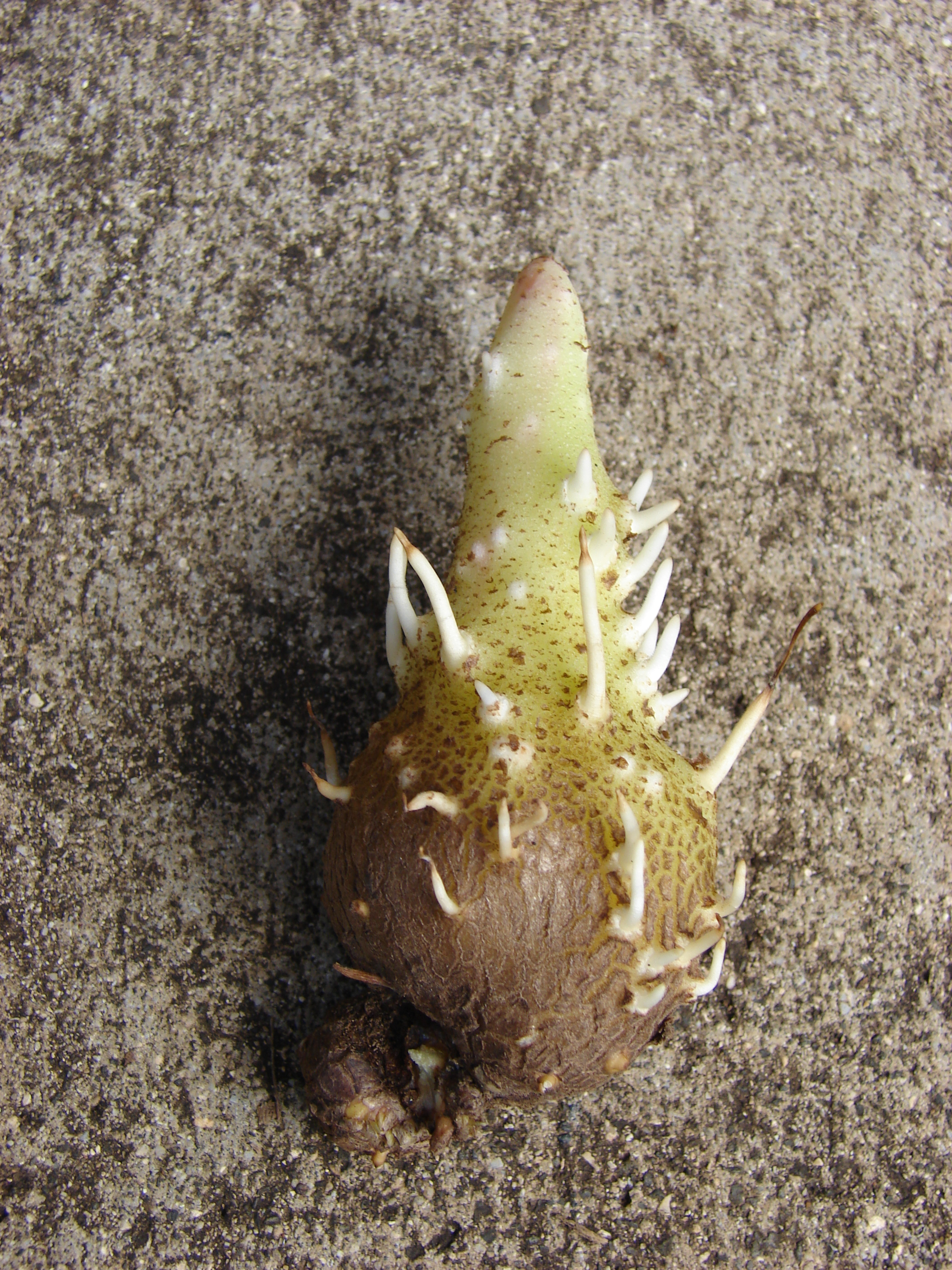 Dioscorea alata (yamlet). Location: Maui, Maui Nui Botanical Garden